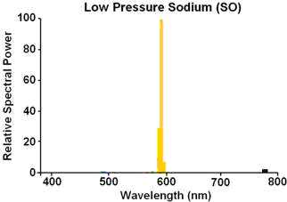 Emission spectrum low pressure natrium lamp.